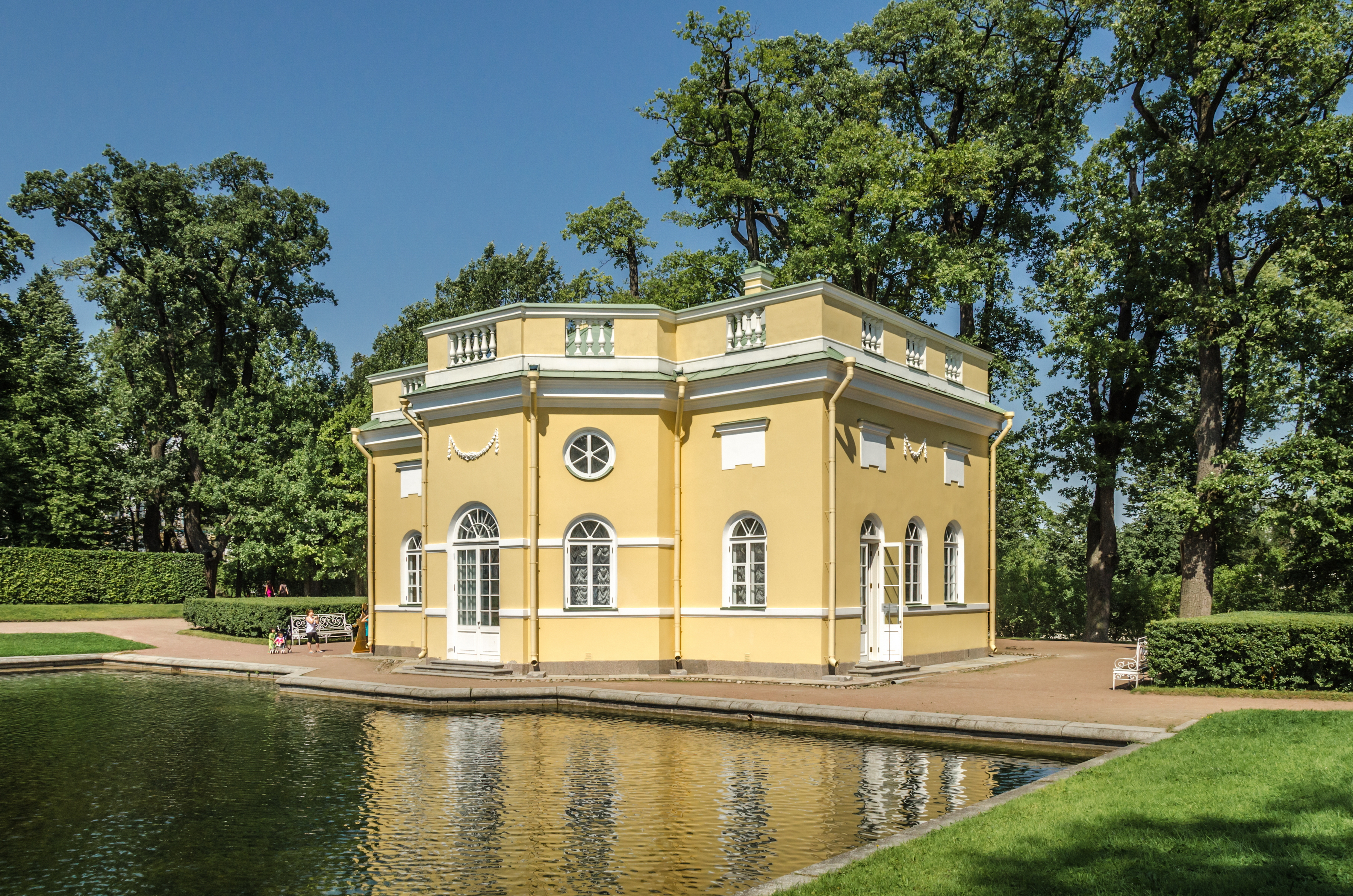 Upper Bath pavilion in Catherine park of Tsarskoe Selo, Saint Petersburg